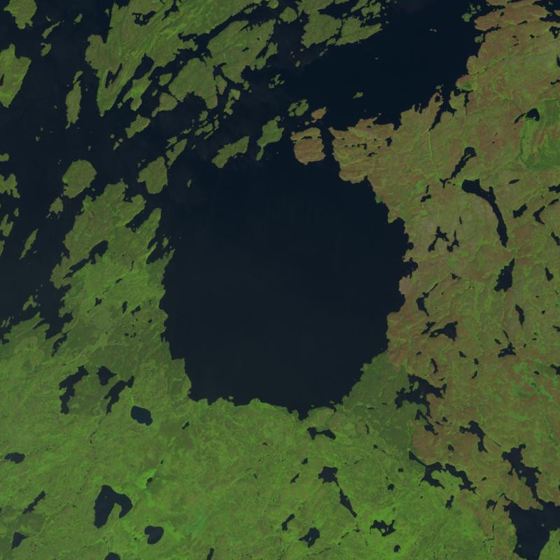 Deep Bay impact structure, Saskatchewan, Canada. Image acquired July 18, 2018. Image width is about 23.5 km. LC08 L1TP 037021 20180718 20180731 01 T1 is the Landsat image number.